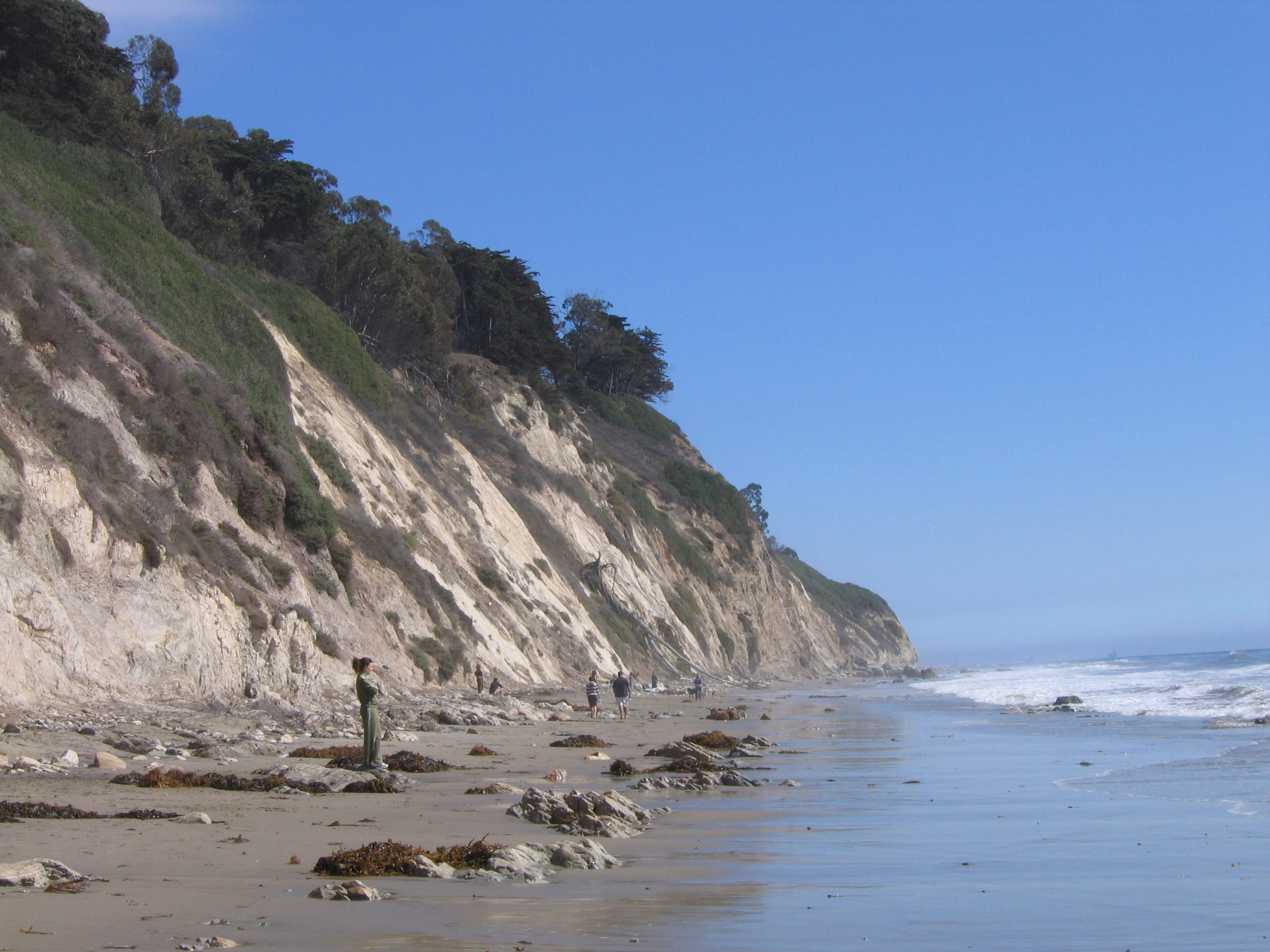 Cliffs at Arroyo Burro Beach Park